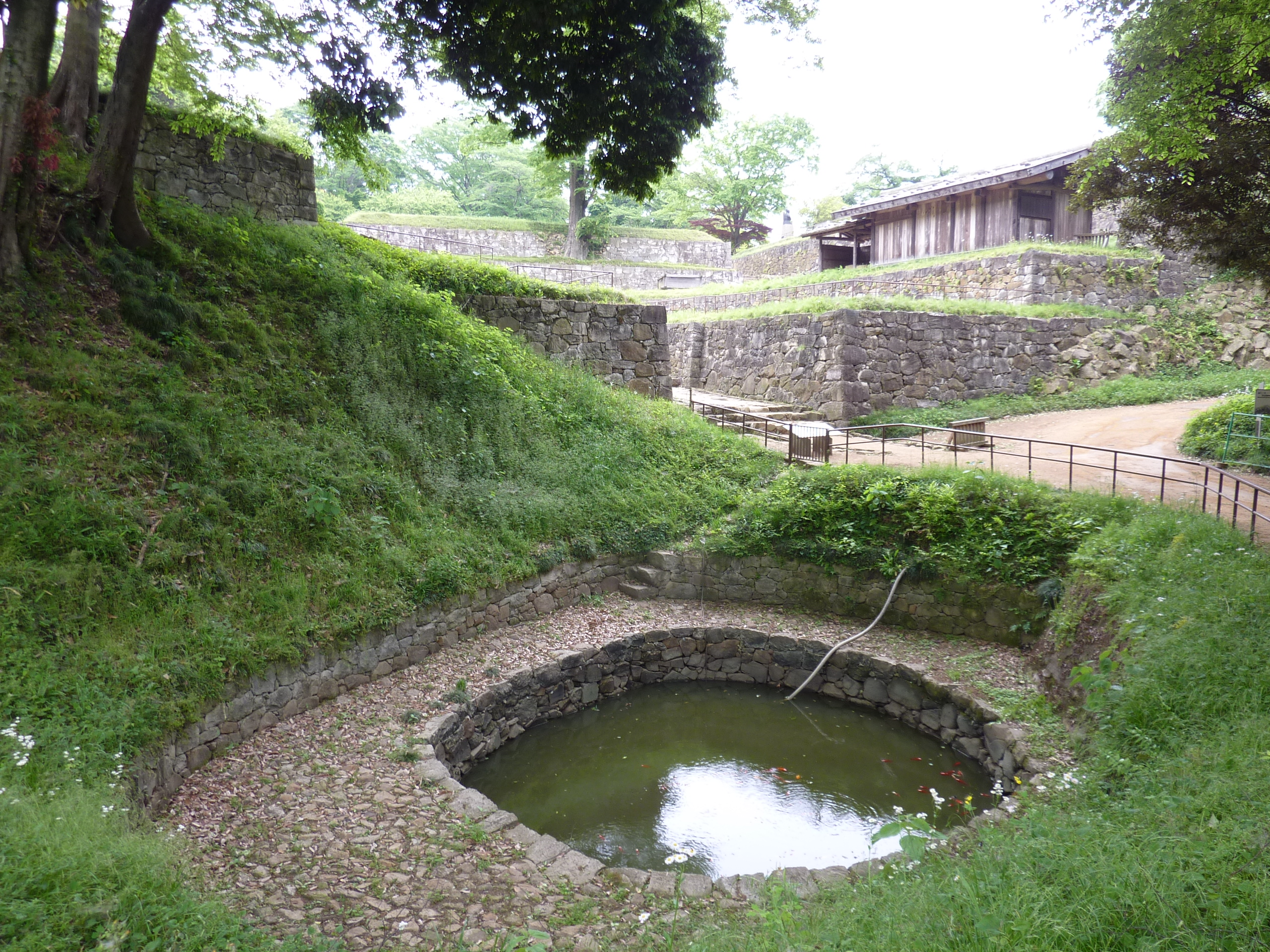 Tsuki-no-ike pond and Ōte-koguchi, Kanayama Castle